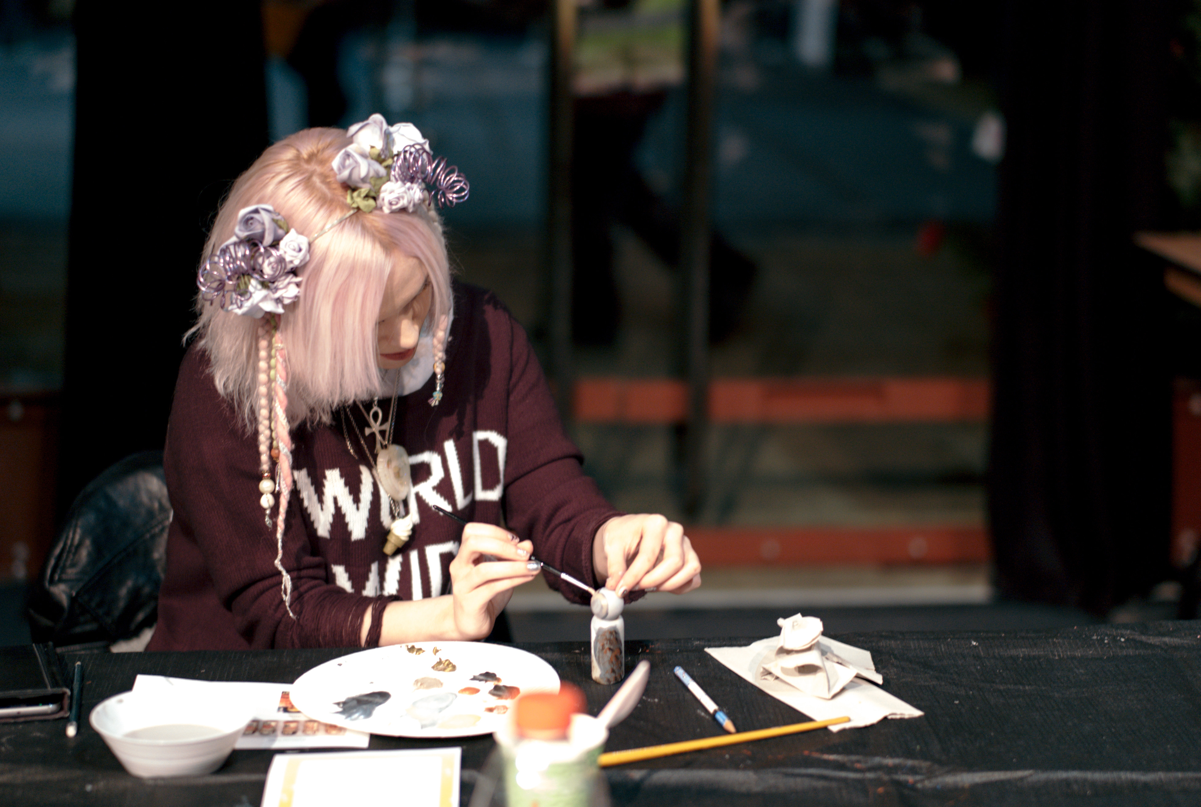 A girl works on a Kokeshi figure at the creative crafts stand at Hyper Japan. Hyper Japan, Tobacco Docks, November 2016